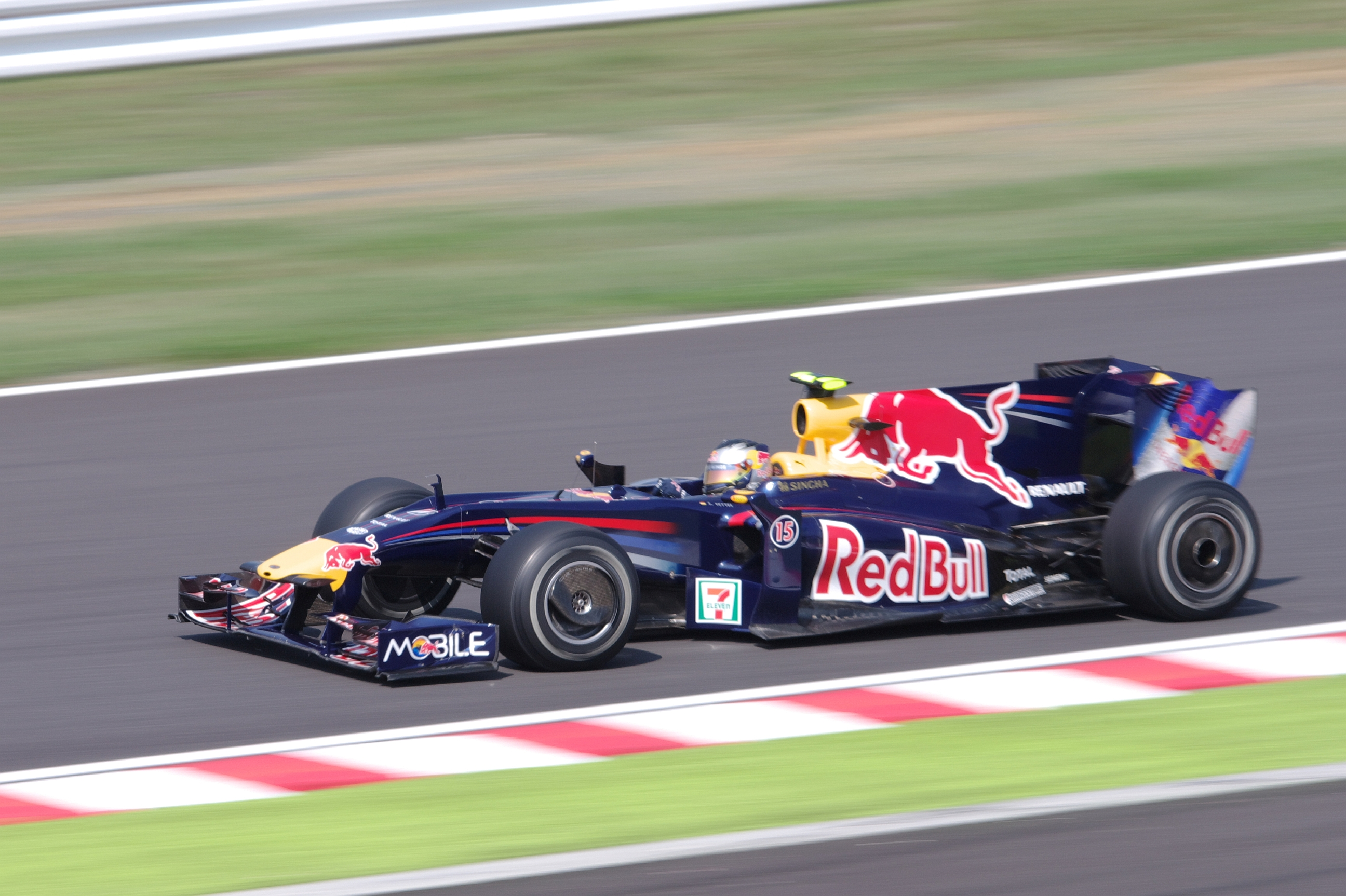 Red Bull RB5 driven by Sebastian Vettel at the 2009 F1 Japanese GP in Suzuka.